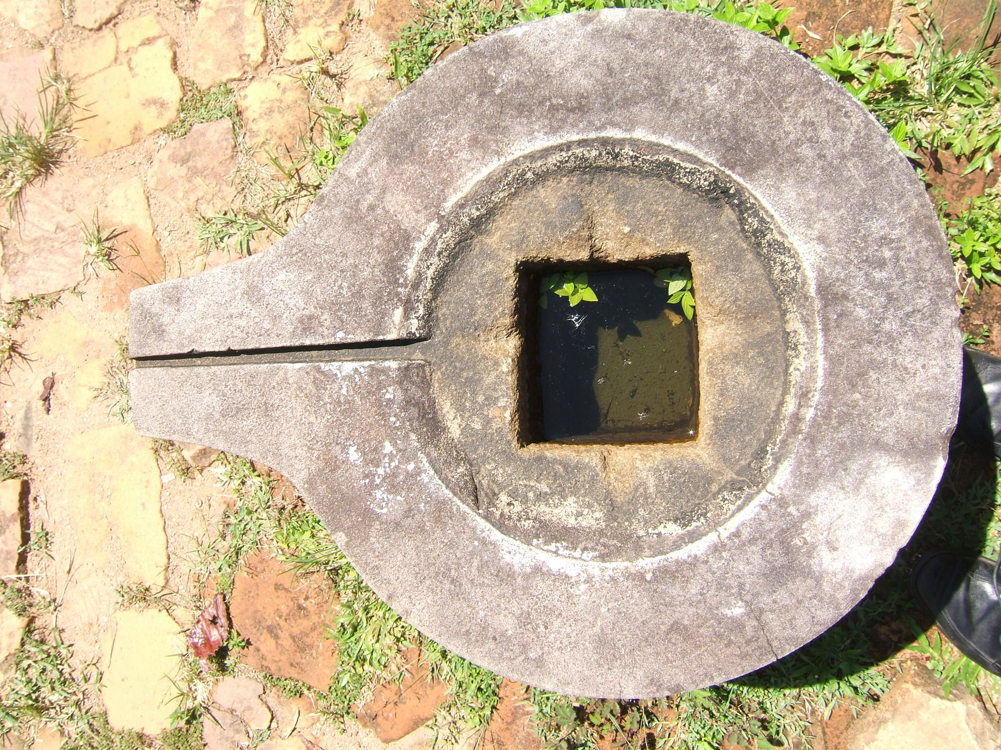 A stone yoni found in My Son Sanctuary, Quang Nam, Vietnam.